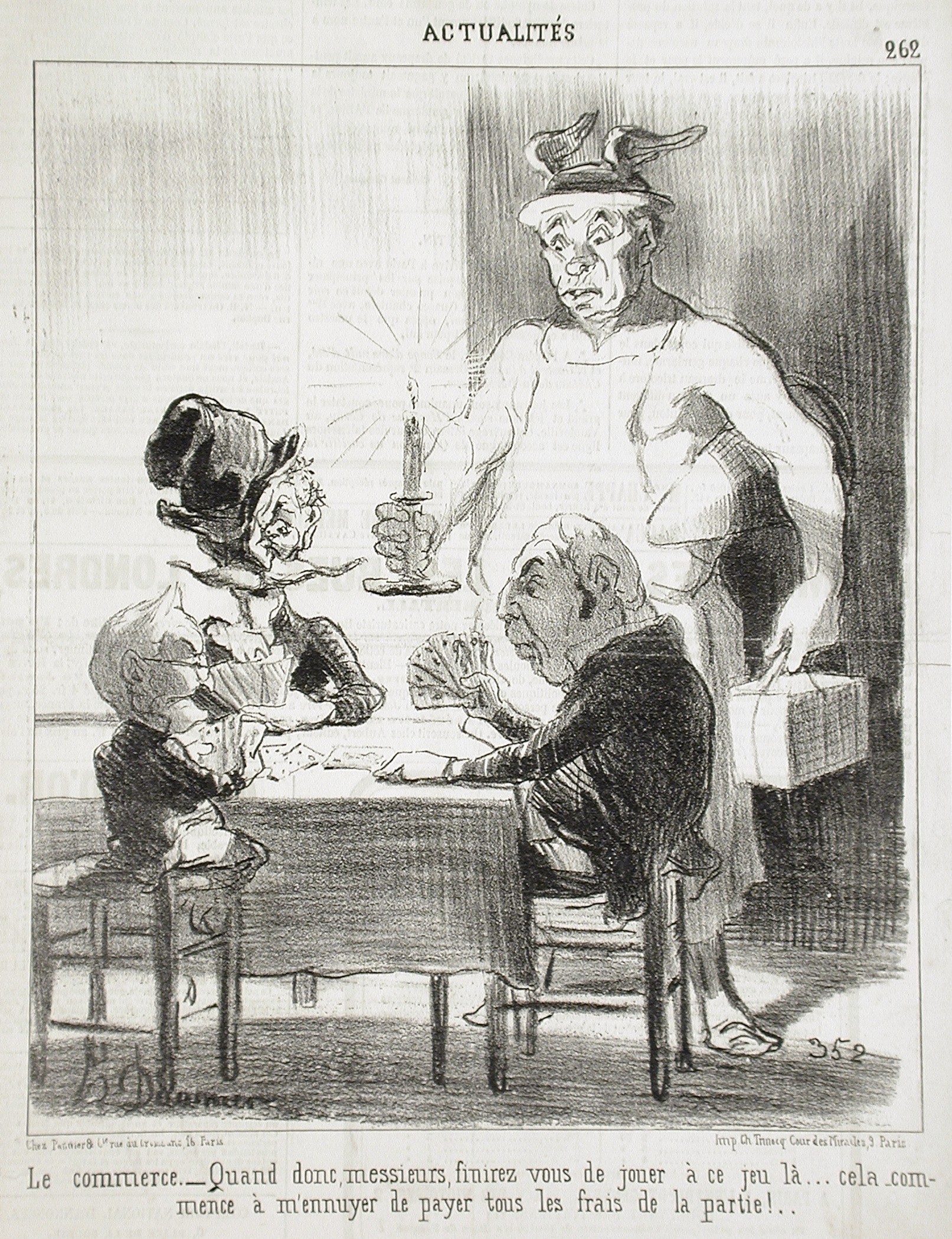 France, 1851 Series: Actualités Periodical: Le Charivari, 2 December 1851 Prints; lithographs Lithograph Sheet: 10 5/16 x 8 9/16 in. (26.19 x 21.75 cm) Gift of Mrs. Florence Victor from The David and Florence Victor Collection (M.91.82.251) Prints and Drawings